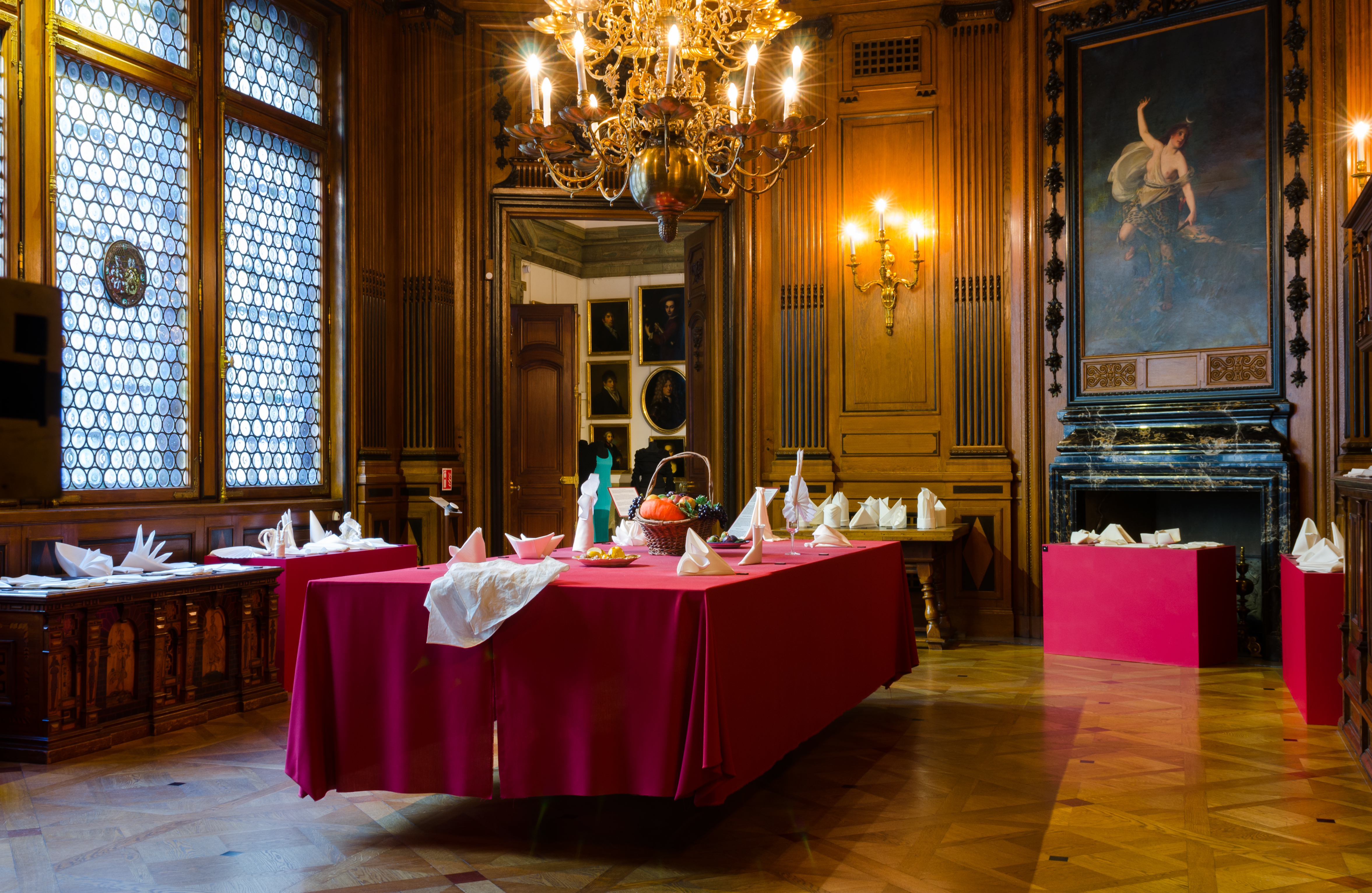 Matsalen, Hallwylska museet.